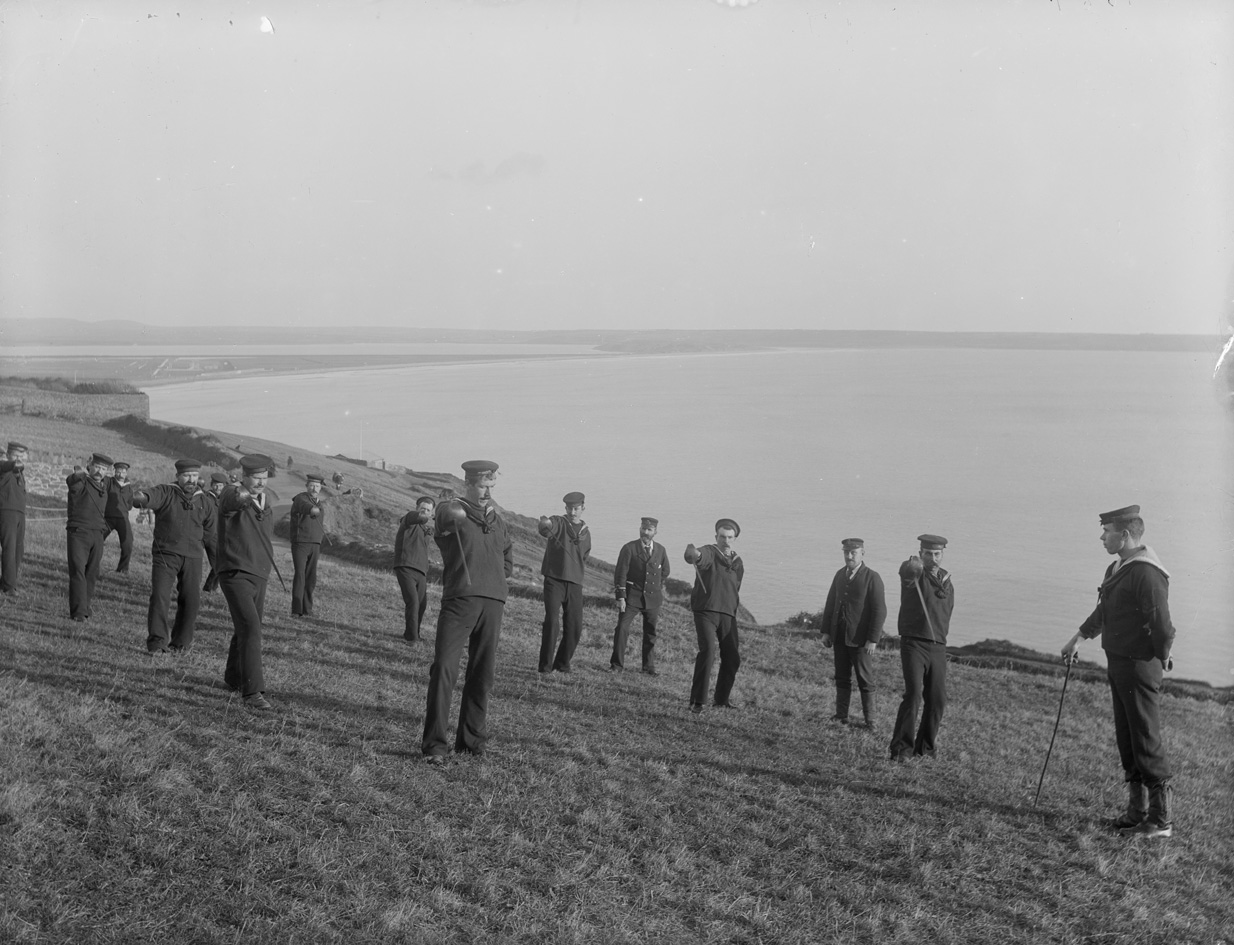 Here are members of the Coast Guard drilling with swords at Tramore, Co. Waterford. Think that this photo was taken on the headland that leads out to the Metal Man, as you can make out Tramore Strand and the Back Strand in the distance.They seem to have RNR or RNB on their hats - would this be Royal Naval Reserve? Date: Circa 1905 NLI Ref.: P_WP_1087